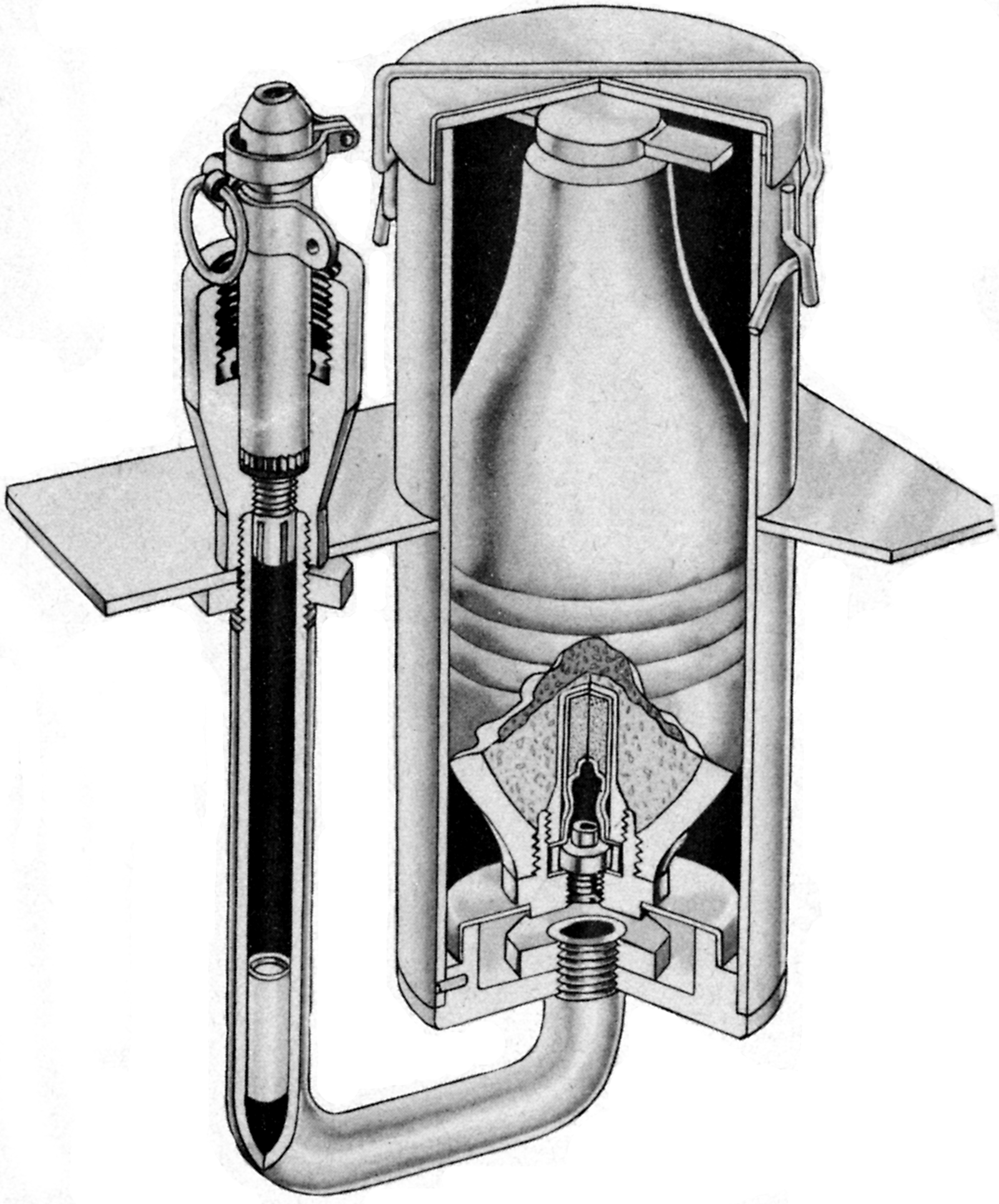 Cross-section of a French Modele 1939 Bounding mine